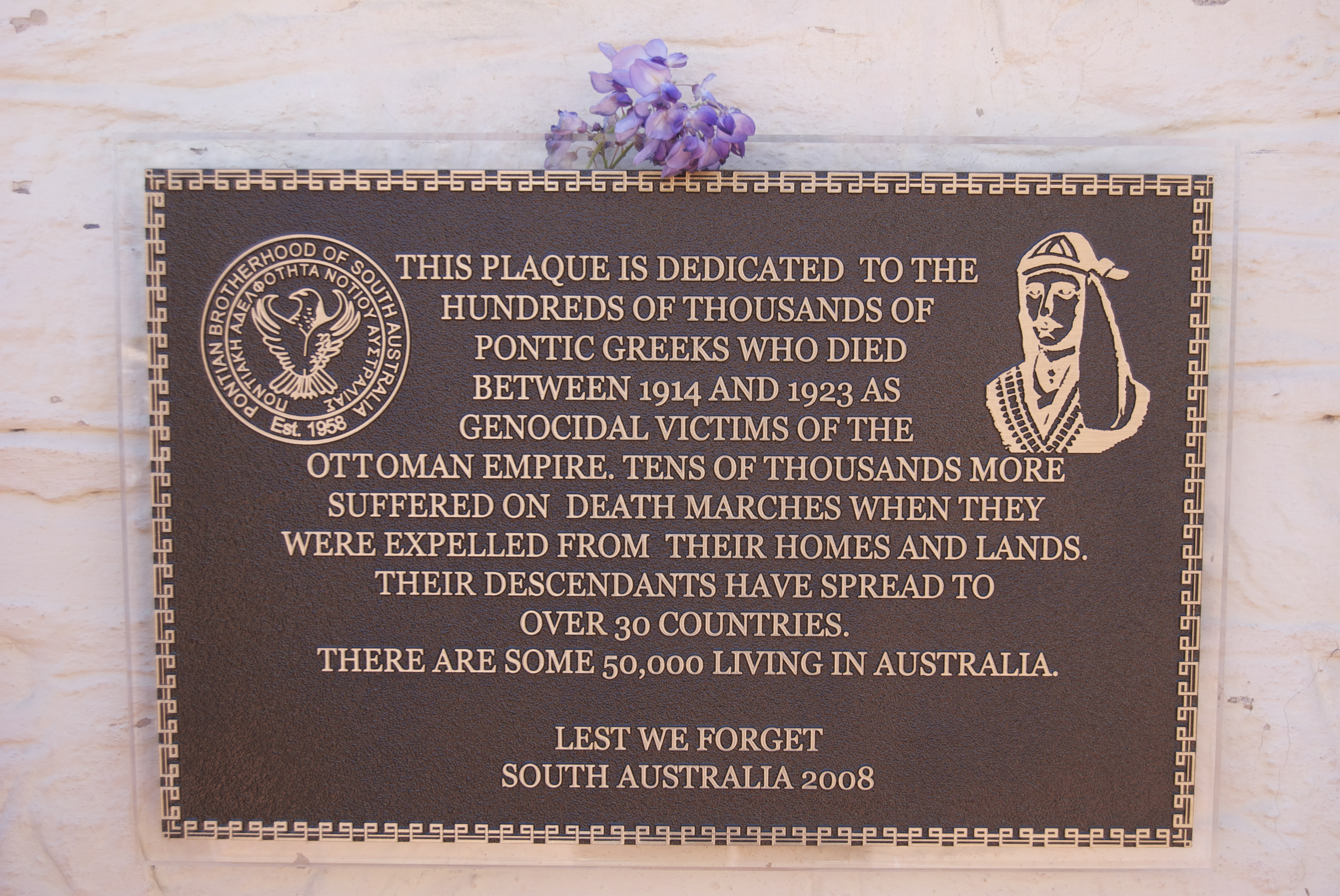 First Memorial Plaque dedicated to the victims of the Pontian Genocide 1914-1923. Located at the South Australian Migration Museum, Kintore Avenue, Adelaide